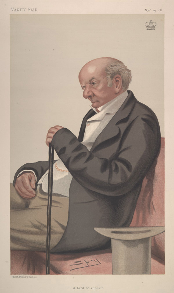 Statesmen No.381: Caricature of The Rt Hon Lord Blackburn. Caption reads: "a lord of appeal"